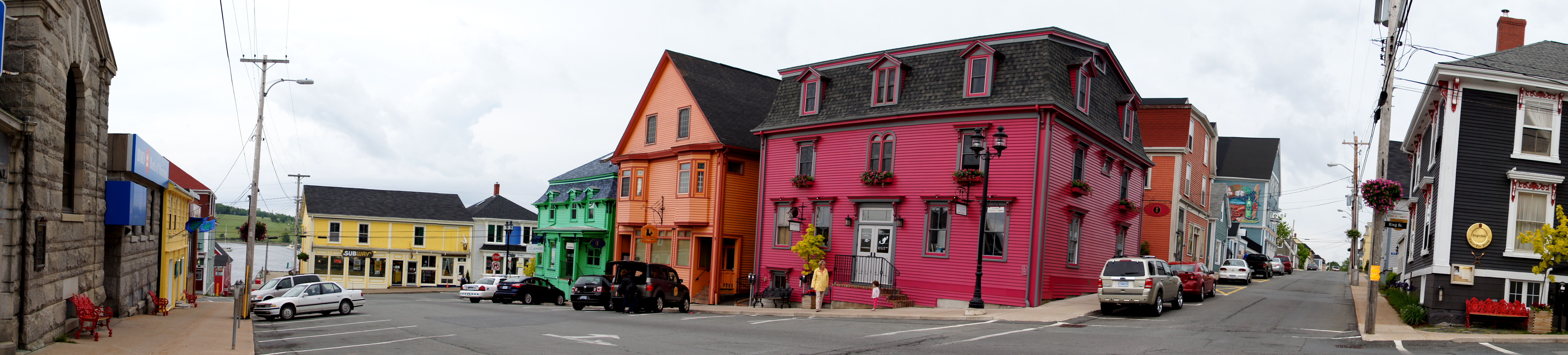 Downtown Lunenburg, Nova Scotia, on the Corner of King and Pelham streets.